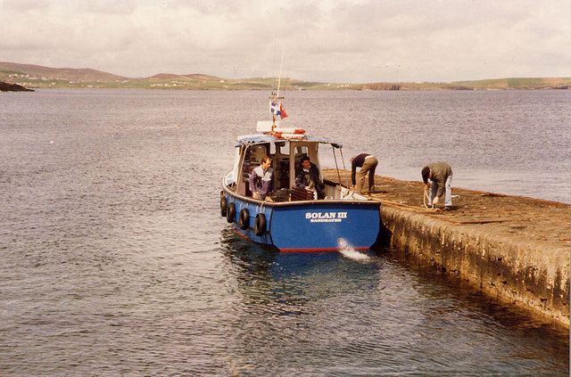 MV Solan III The Mousa ferry, since replaced by Solan IV, at the pier at Sandwick.